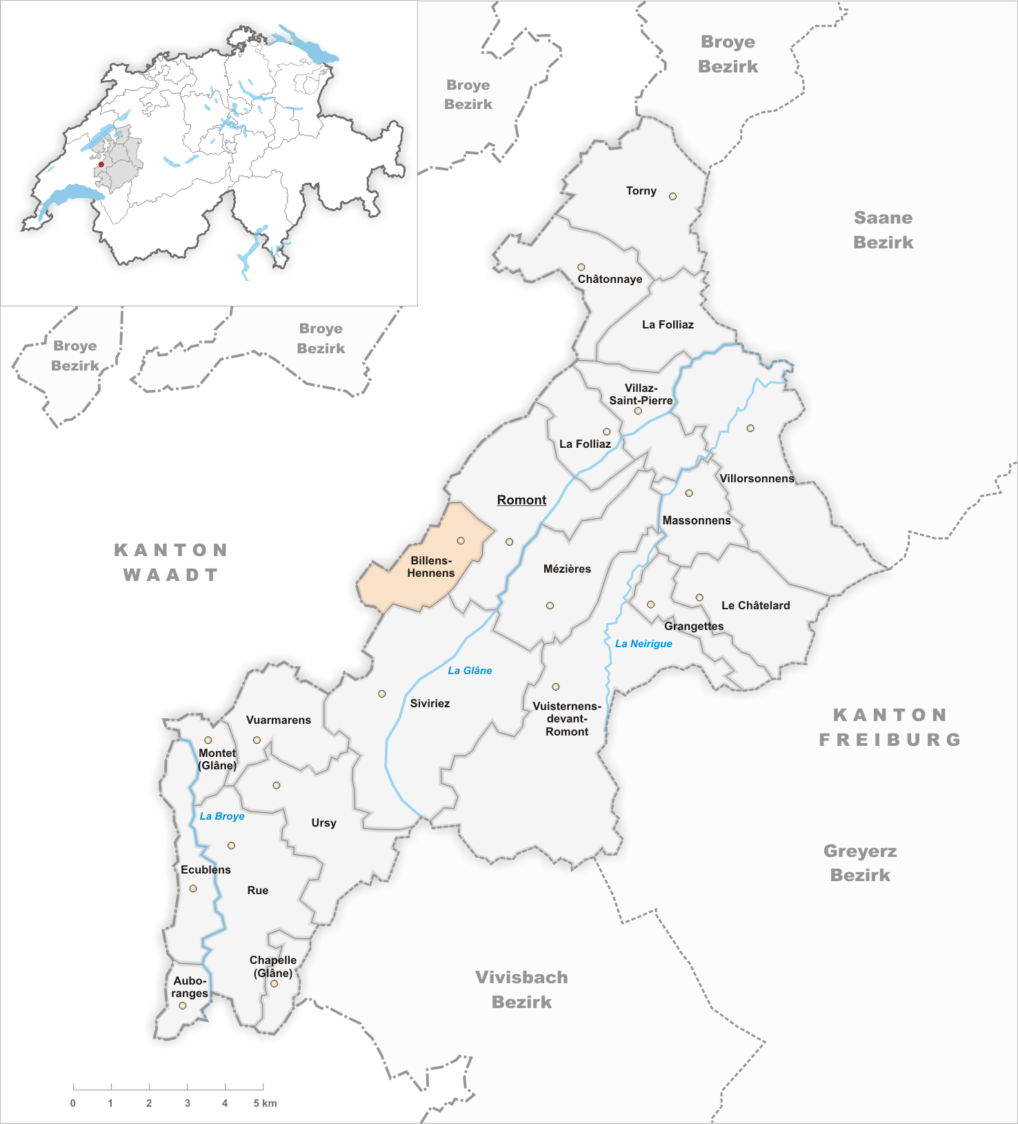 Municipality Billens-Hennens